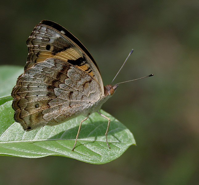 Yellow Pansy Junonia hierta in Talakona forest, in Chittoor District of Andhra Pradesh, India.